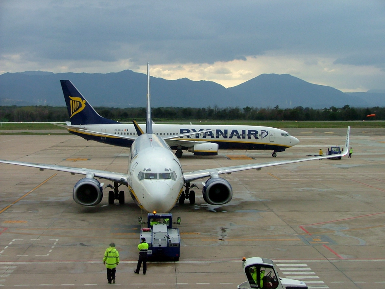 Ryanair's Boeing 737 planes at Girona airport, north of Barcelona, in April, 2007.